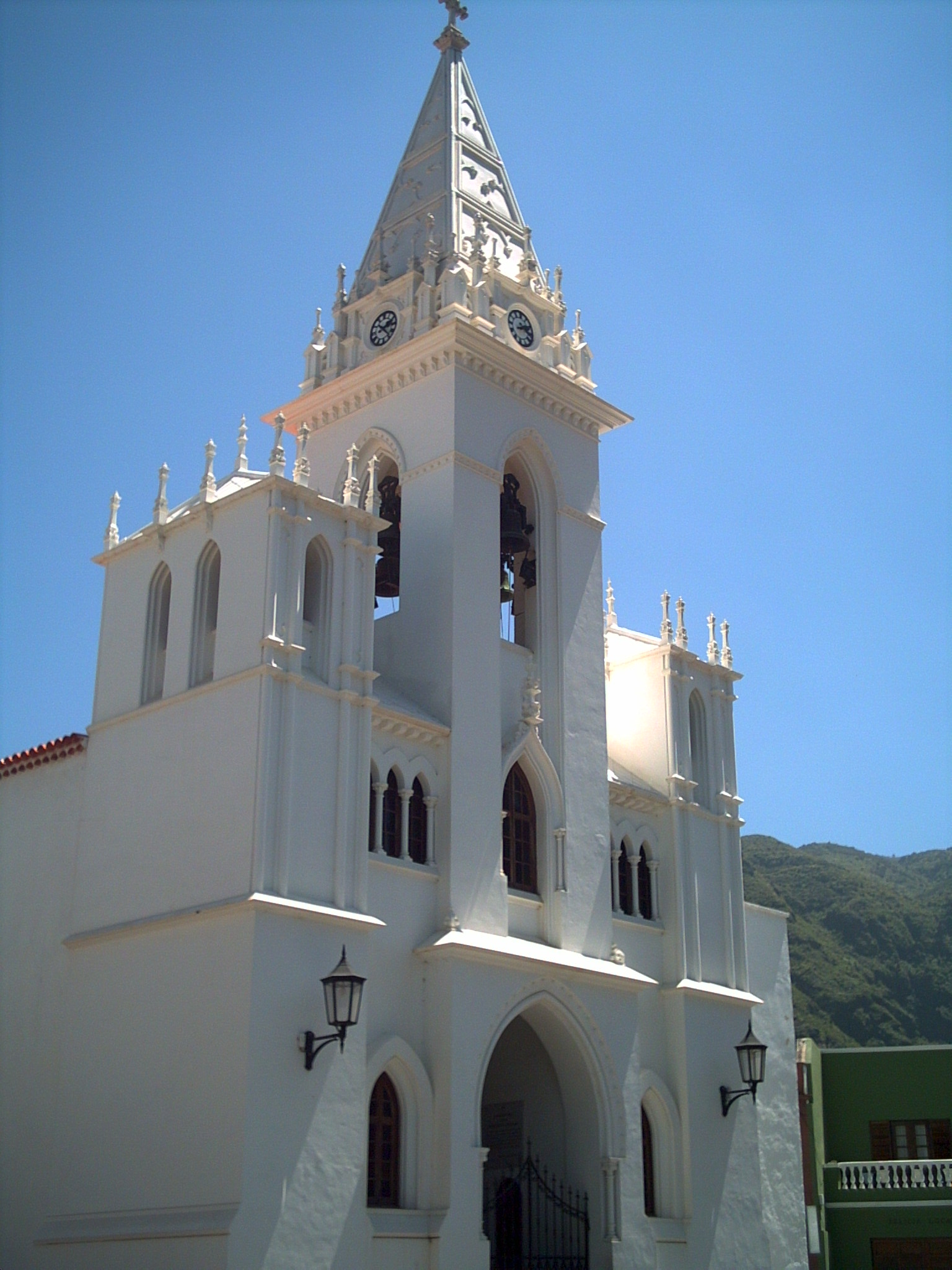 main church in Los silos town, Tenerife, Canary Islanda, Spain